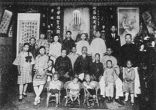 Honto-Jin(Inhabitants of Han Chinese Origins in Taiwan) Chen Family circa 1930